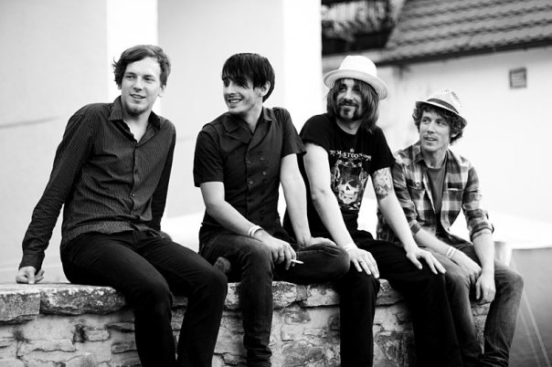 NiceLand